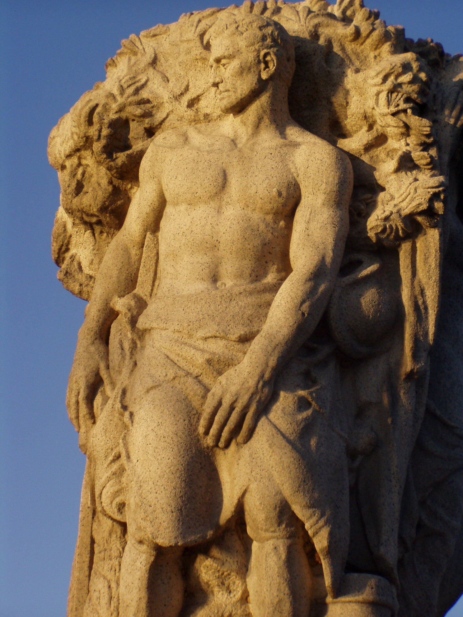 John Ericsson National Memorial by James Earle Fraser